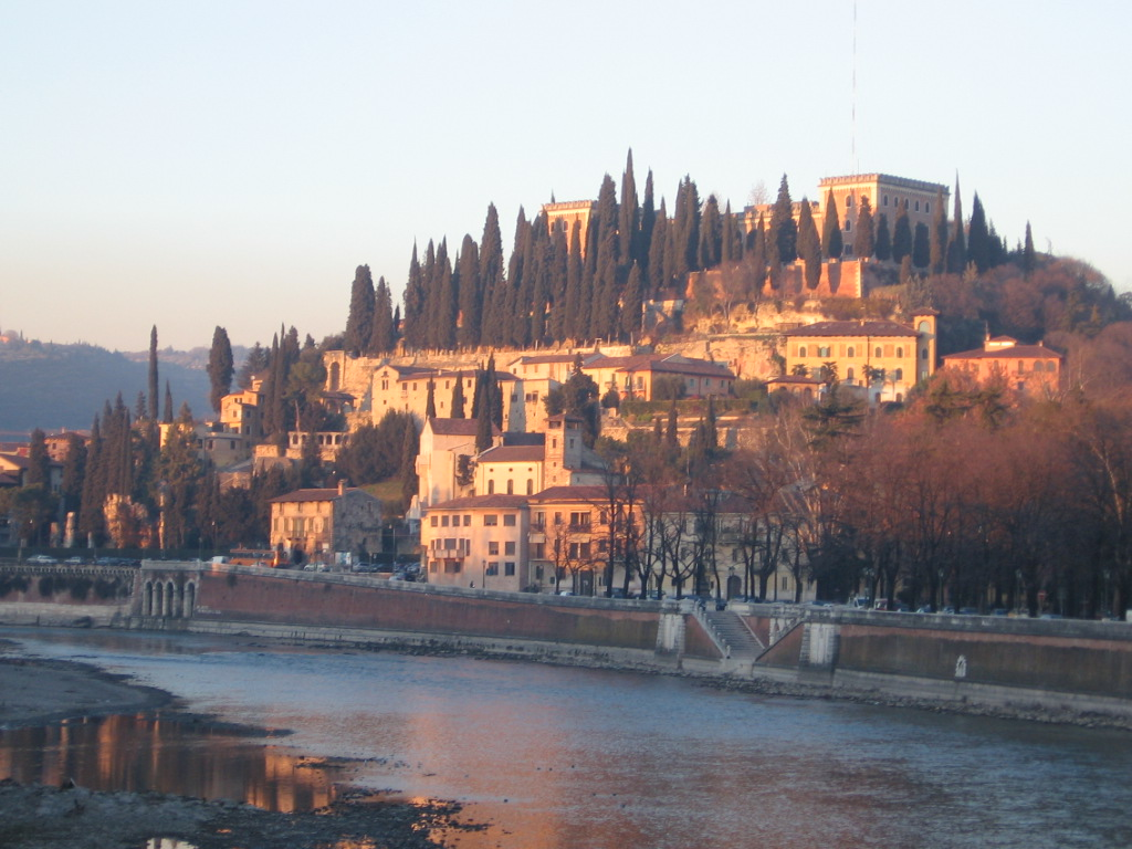 Wiew of Castel San Pietro in Verona, Italy